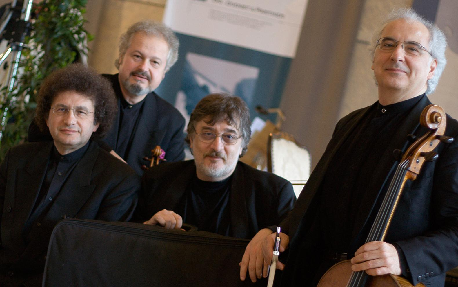 Photo of the Enesco Quartet